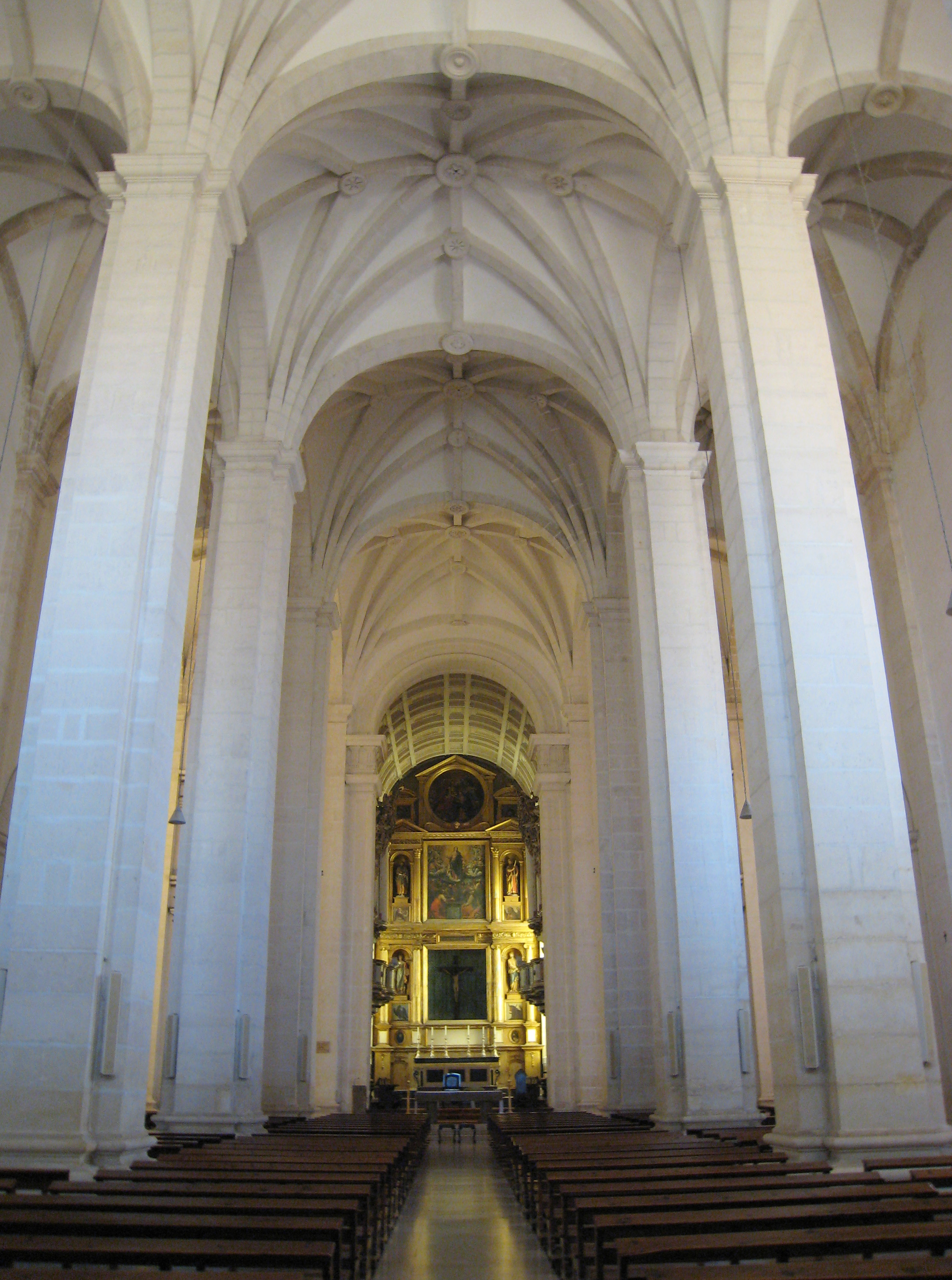 Leiria Cathedral, Portugal